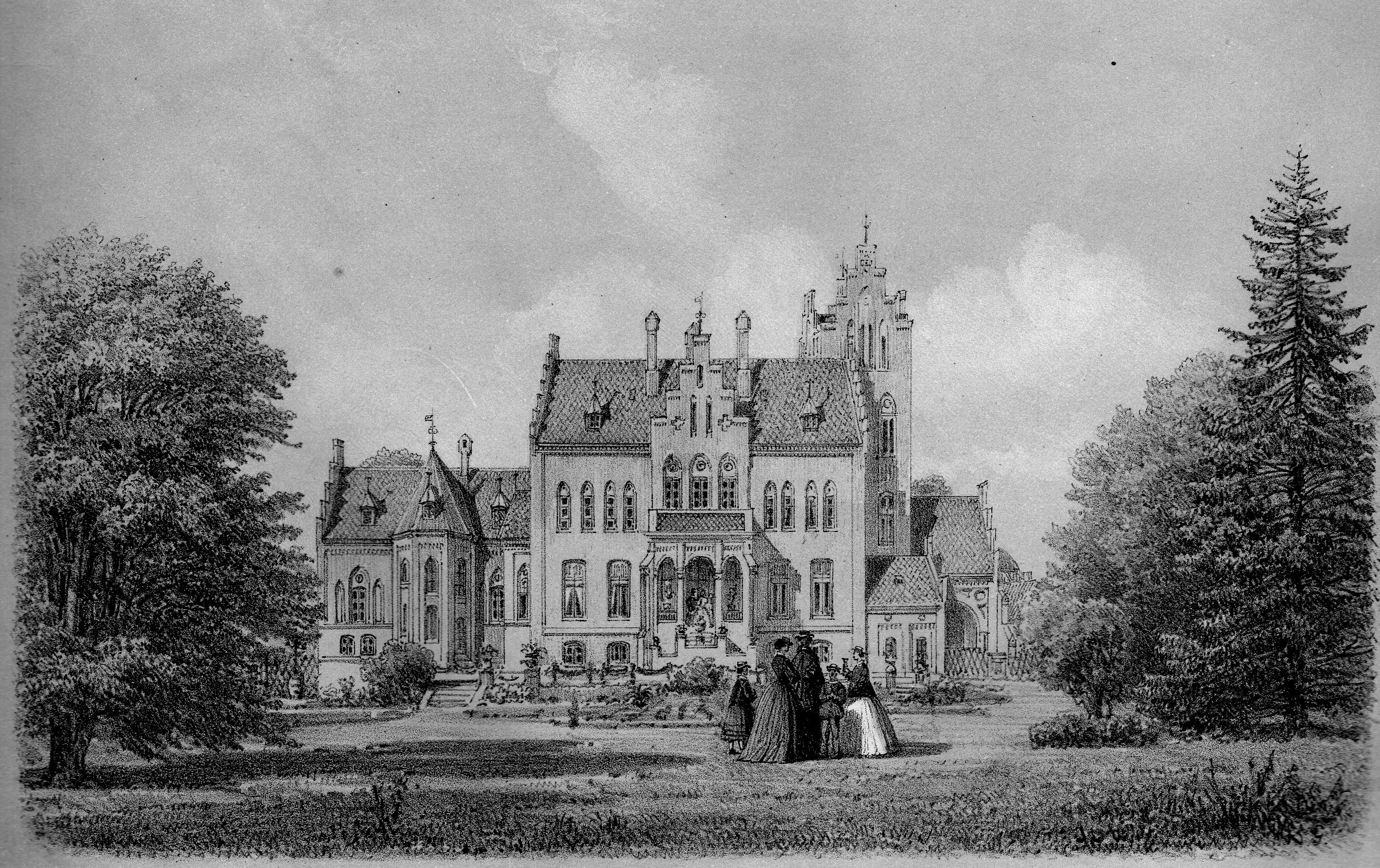 Scanned by myself from a copy of the old book in 2007. The book was graciously lent to me by Det Kongelige Garnisonsbibliotek.